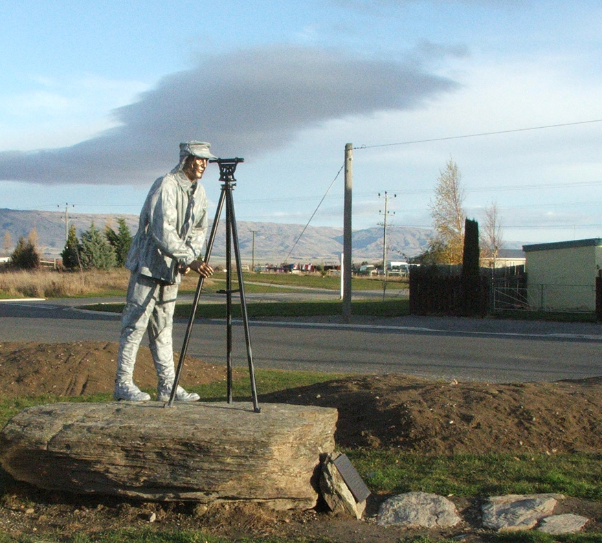 John Turnbull Thomson memorial, Ranfurly, NZ